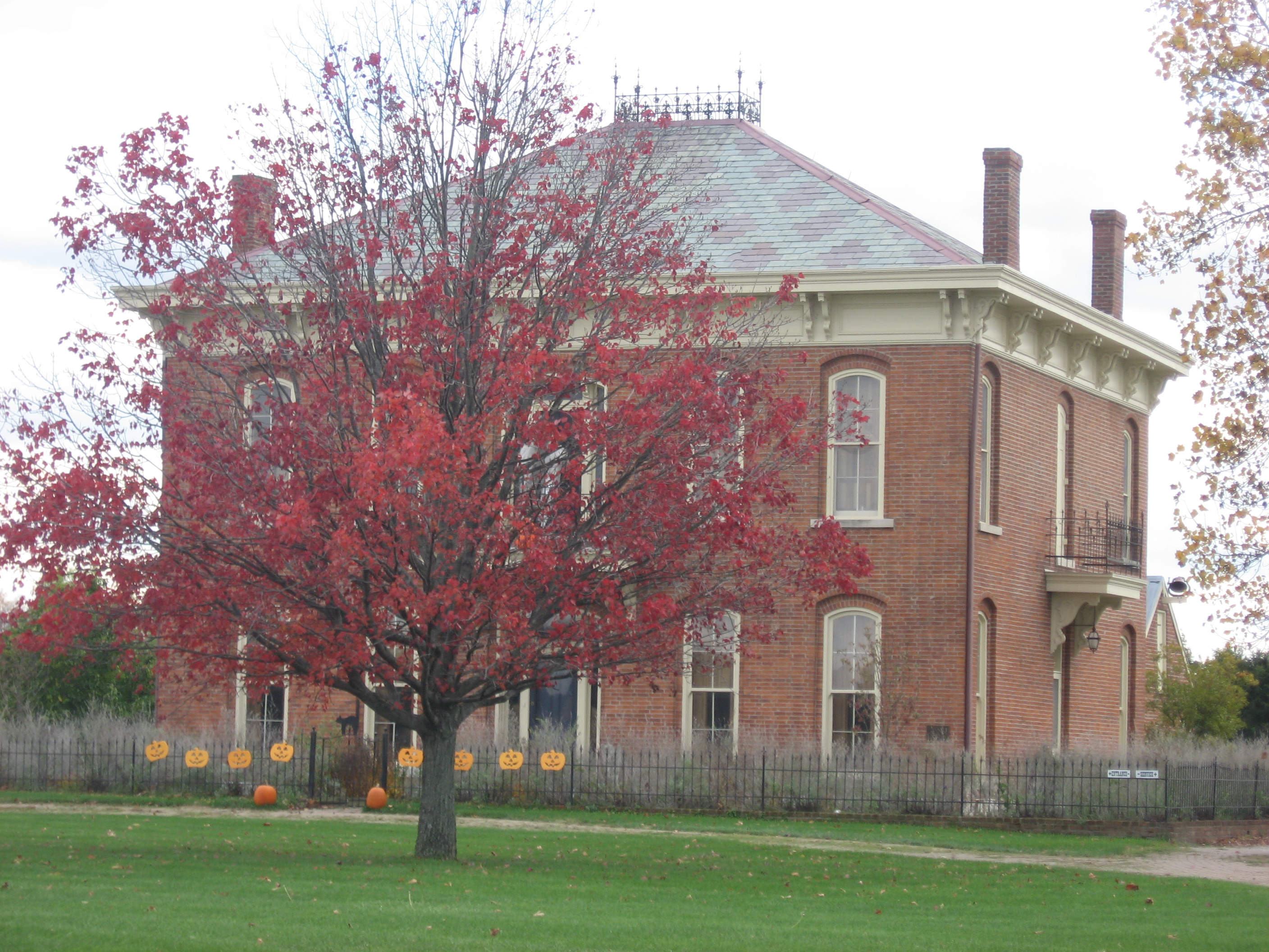 Front and western side of the Melville F. McHaffie Farmhouse, located on the southern side of U.S. Route 40 just west of Stilesville, Indiana, United States. The house is located on the northern edge of Jefferson Township in Putnam County, but the photo is taken from the end of the driveway, which is located on the southern edge of Franklin Township in Hendricks County. Built in 1870, it is listed on the National Register of Historic Places.